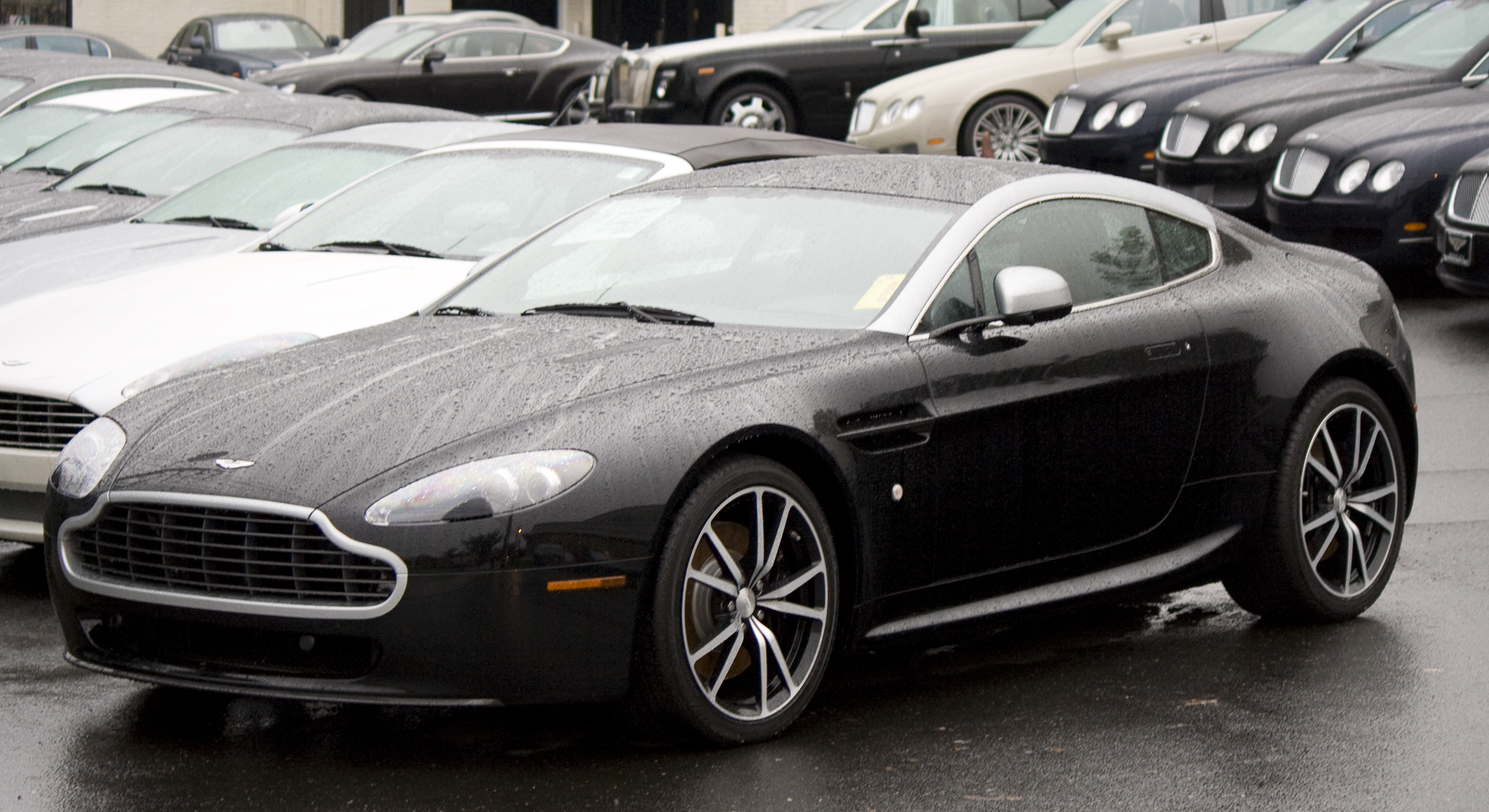 2011 Aston Martin V8 Vantage N420 in good company